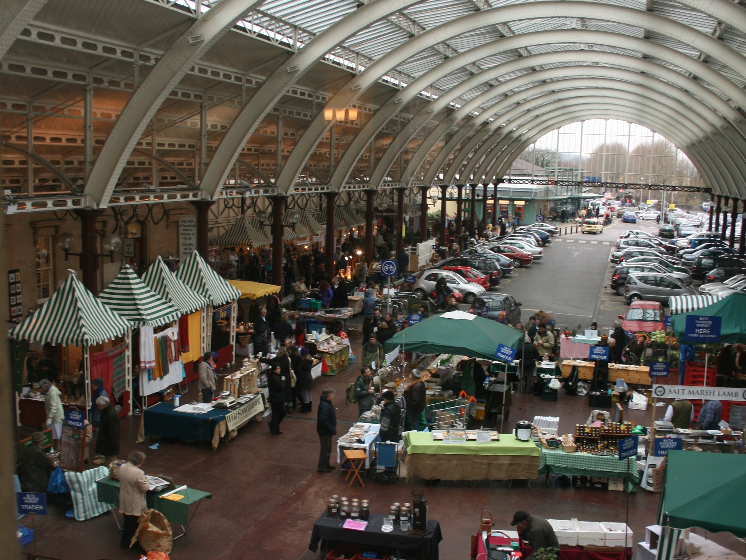 a view of the Saturday market at Green Park Station taken from the Bath Society Meeting room